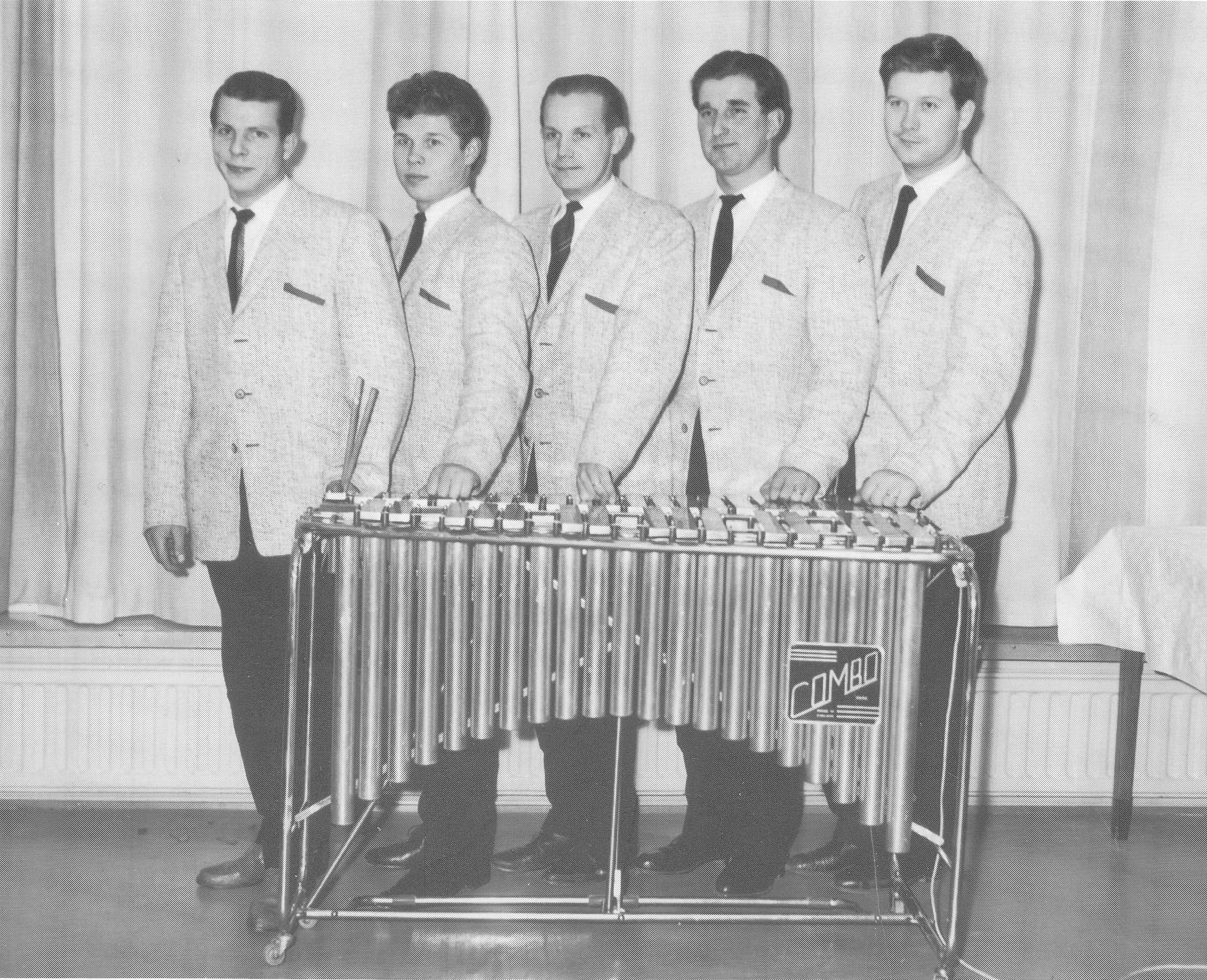 Paavo Sjöbergin yhtye vuonna 1960, vasemmalta Aaro Lehtinen, Leo Väänänen, Paavo Sjöberg, Kauko Laakkio ja Jussi Valto